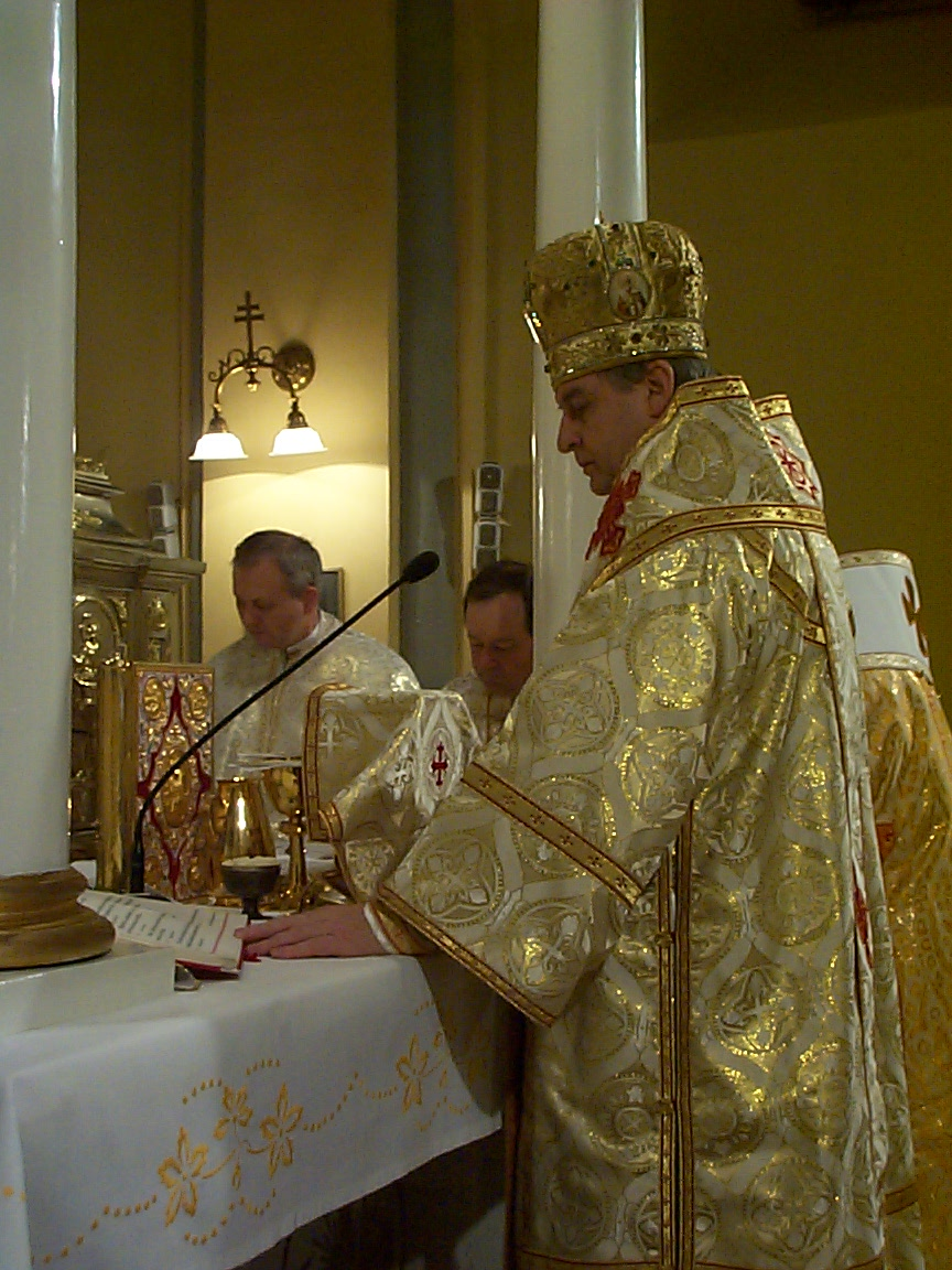 His Excellence bishop Ján Babjak SJ celebrating Divine Liturgy at Saint John the Baptist Cathedral in Presov